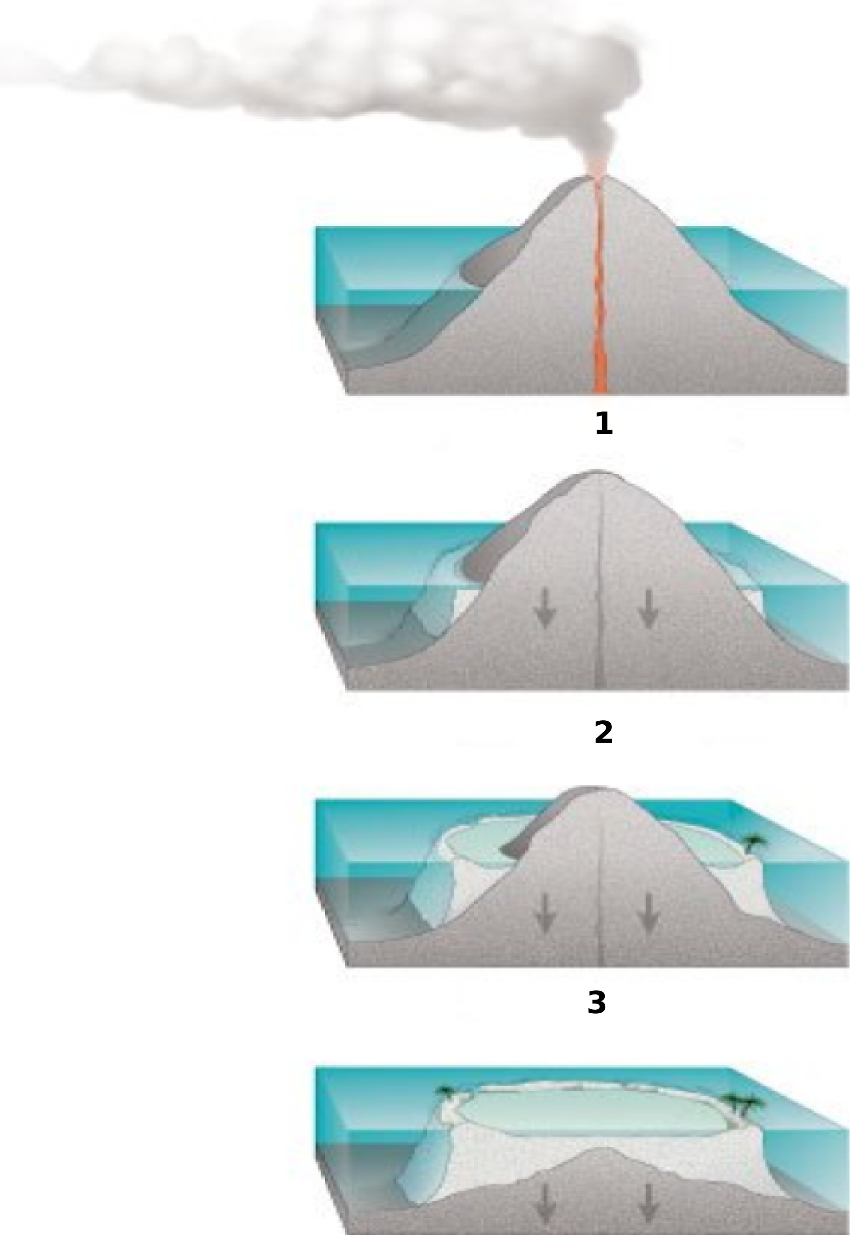 Internationalization of the diagram:Atoll forming. 1=Volcanic Island 2=Fringing reef 3=Barrier reeef Caption: Coral atolls develop from reefs fringing volcanic islands. As first hypothesized by Charles Darwin, and confirmed by ocean drilling done by British scientists a century ago, reefs fringing volcanic islands build vertically to sea level, forming steepwalled barrier reefs. As a volcanic island subsides, or sinks, with time, the growing reef keeps pace with the rising water level. When the island eventually submerges, the ring-shaped reef forms an atoll with a central lagoon.